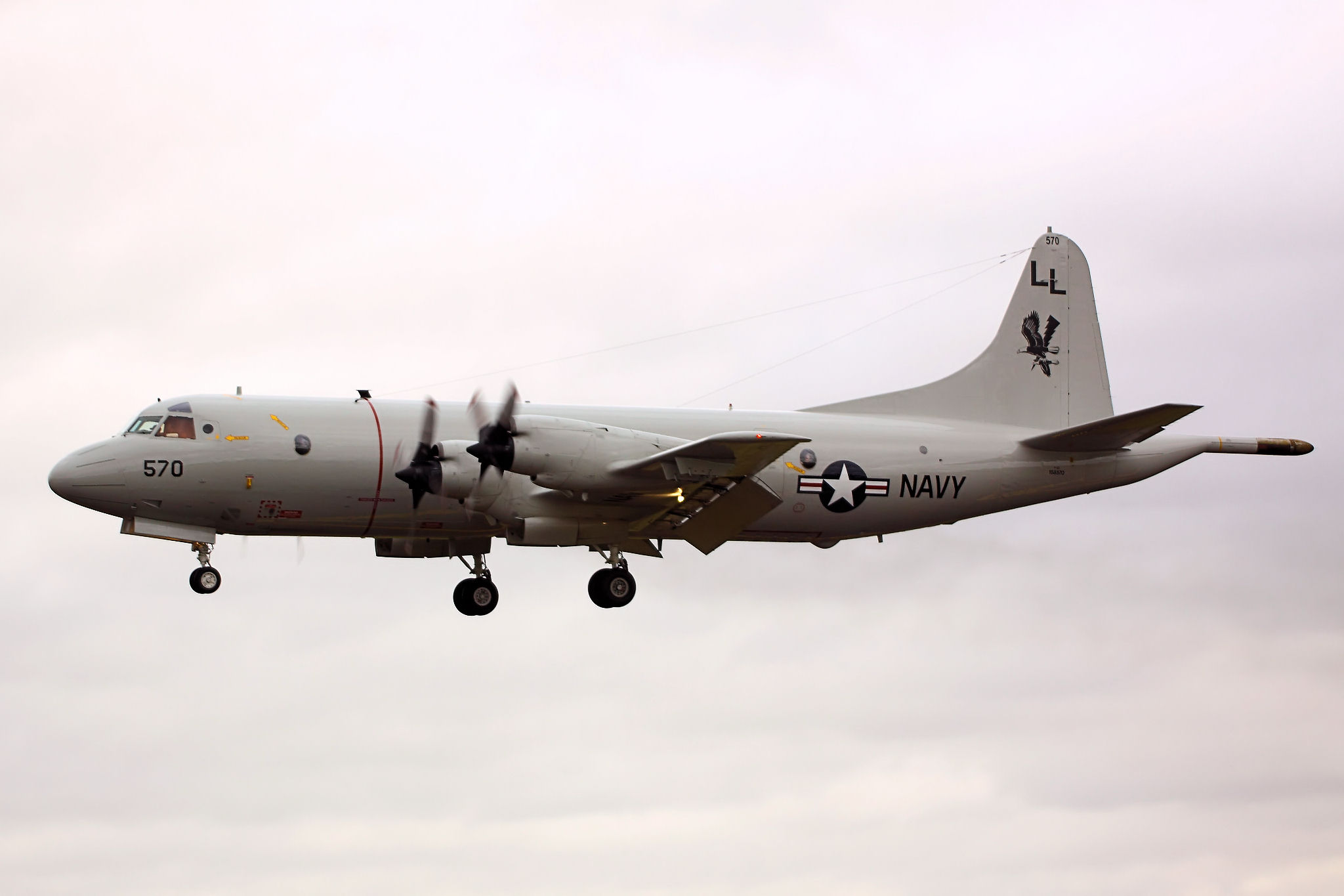 P3 Orion - RIAT 2010